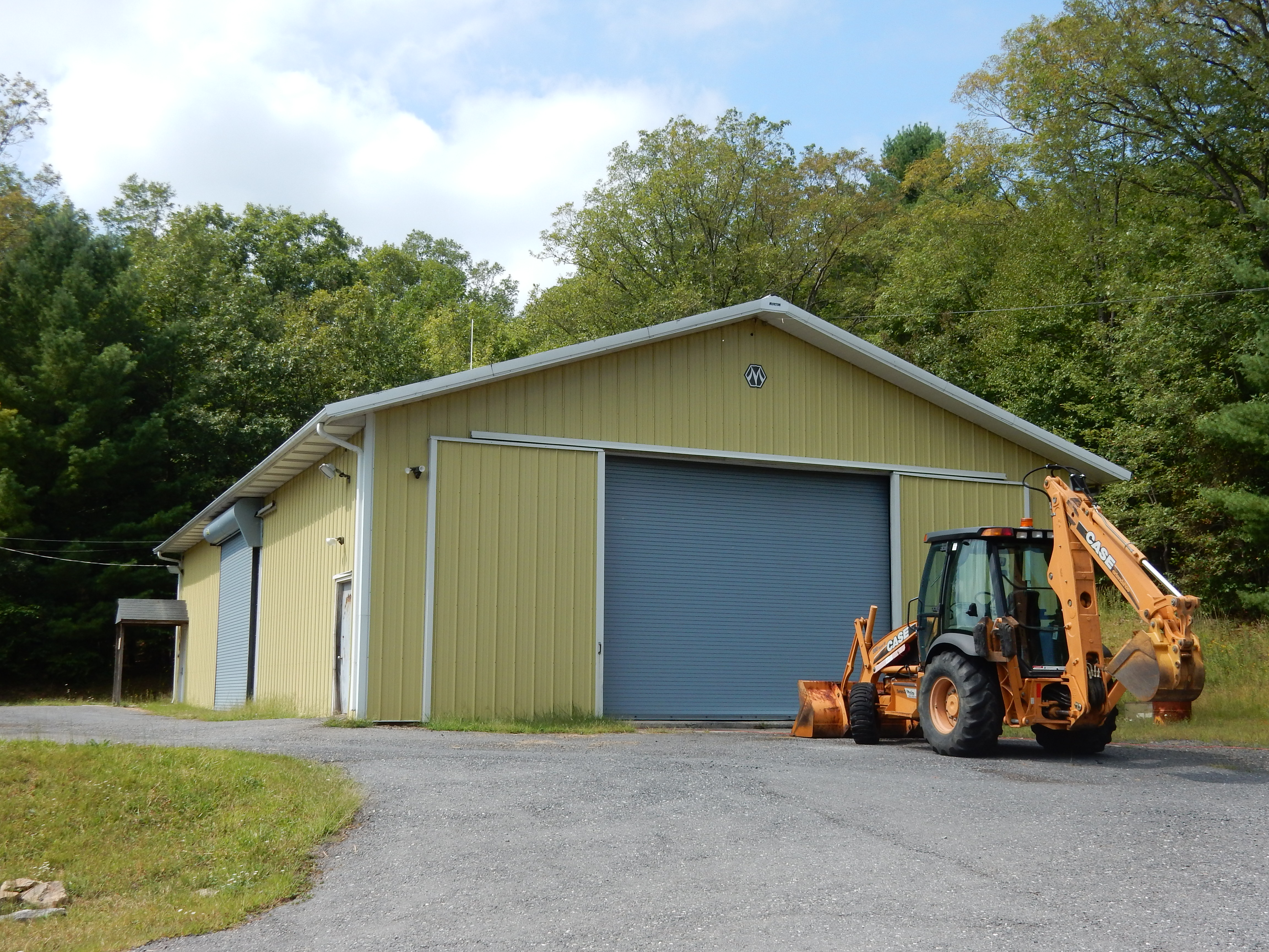 Tremont Township Municipal Bldg. at Molleystown Rd., Tremont Township, Schuylkill County, Pennsylvania.